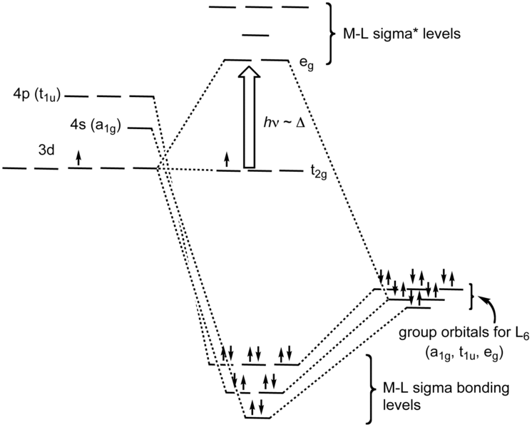 Ligand field theory diagram